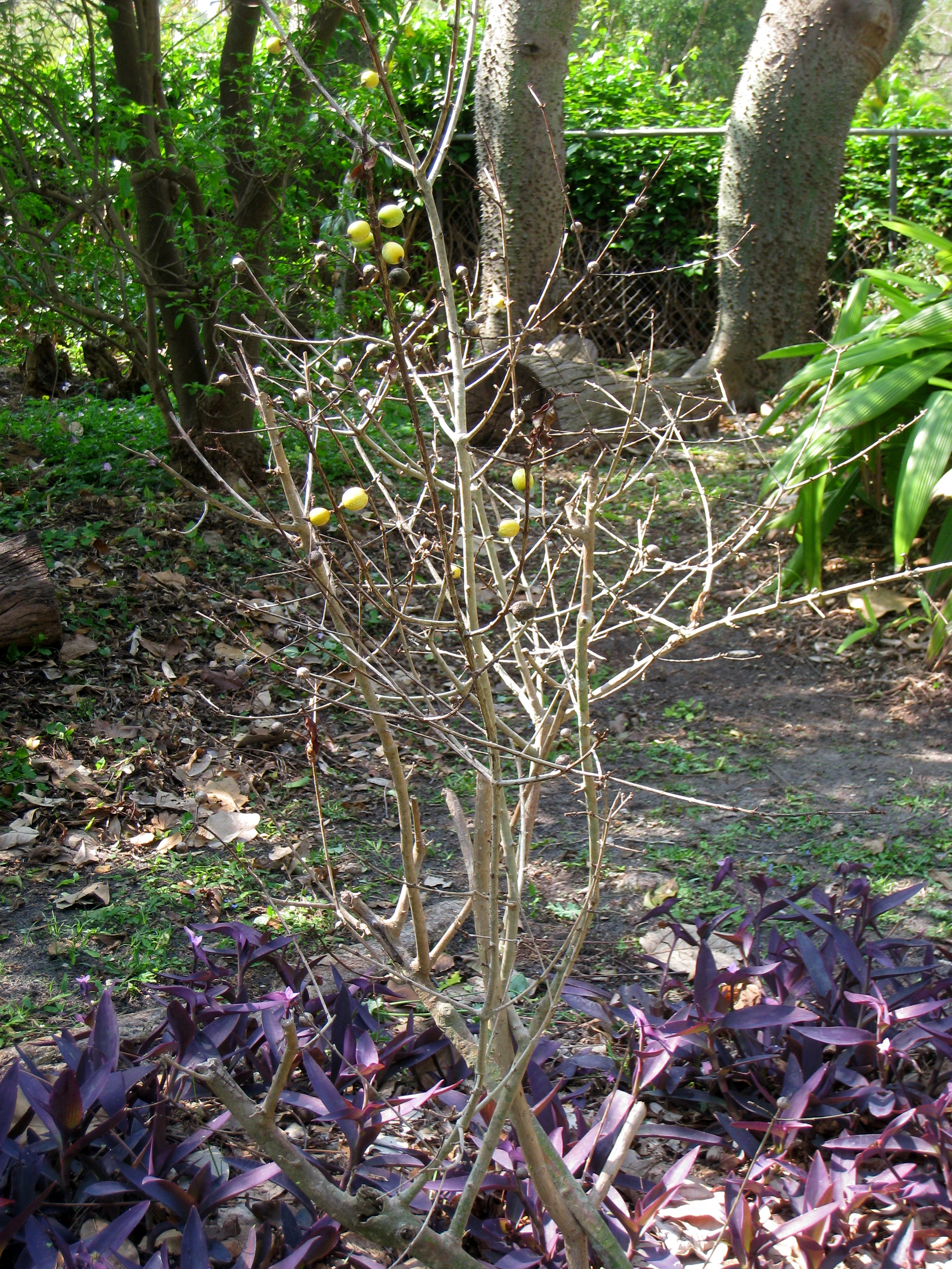 Randia formosa - The Kampong, Coconut Grove, Florida, USA.